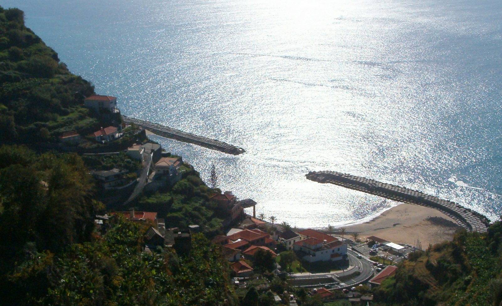 Calheta_Panoramic_View